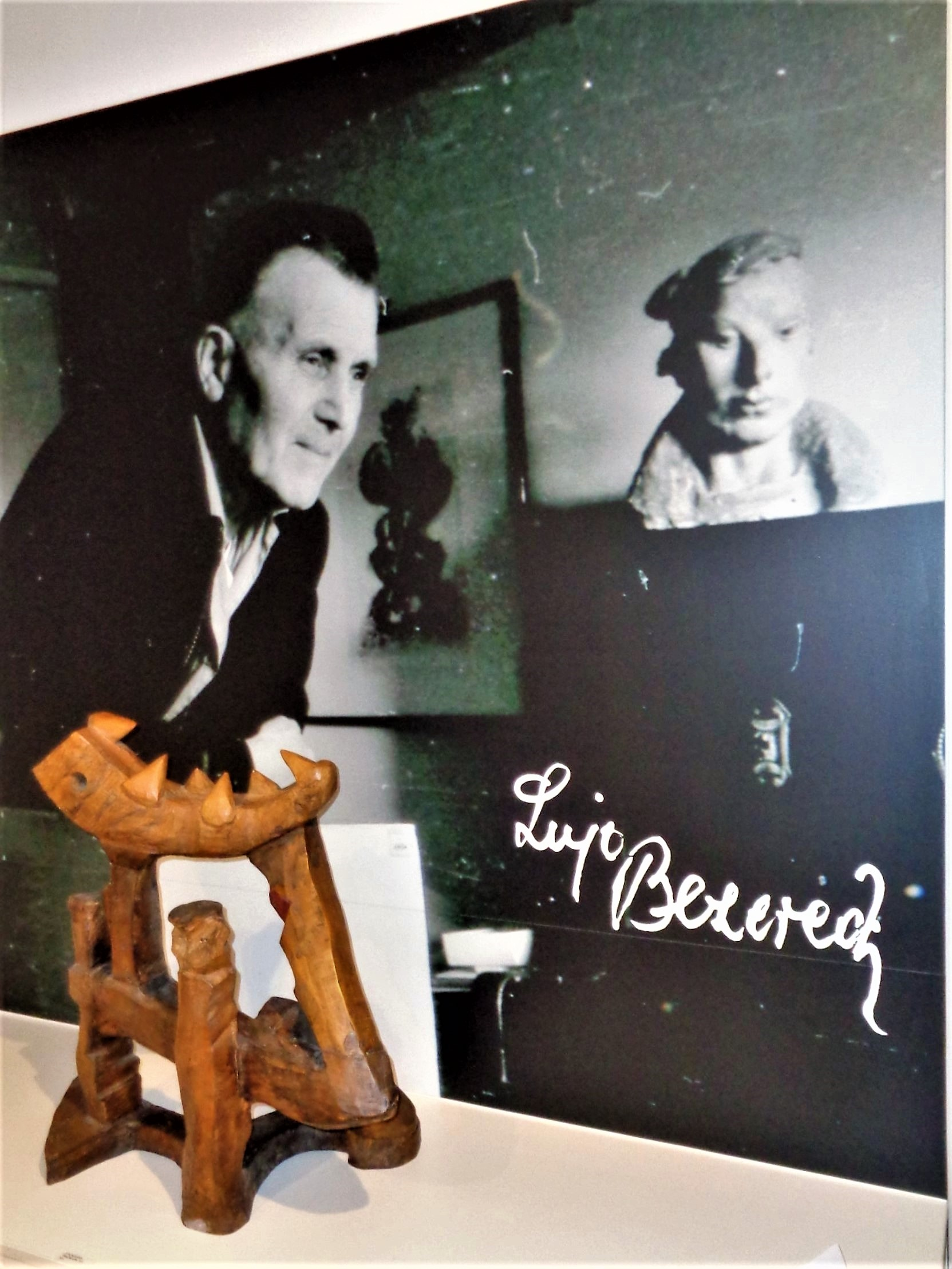 Portrait and signature of Lujo Bezeredy, Croatian sculptor and painter, in Čakovec, Croatia